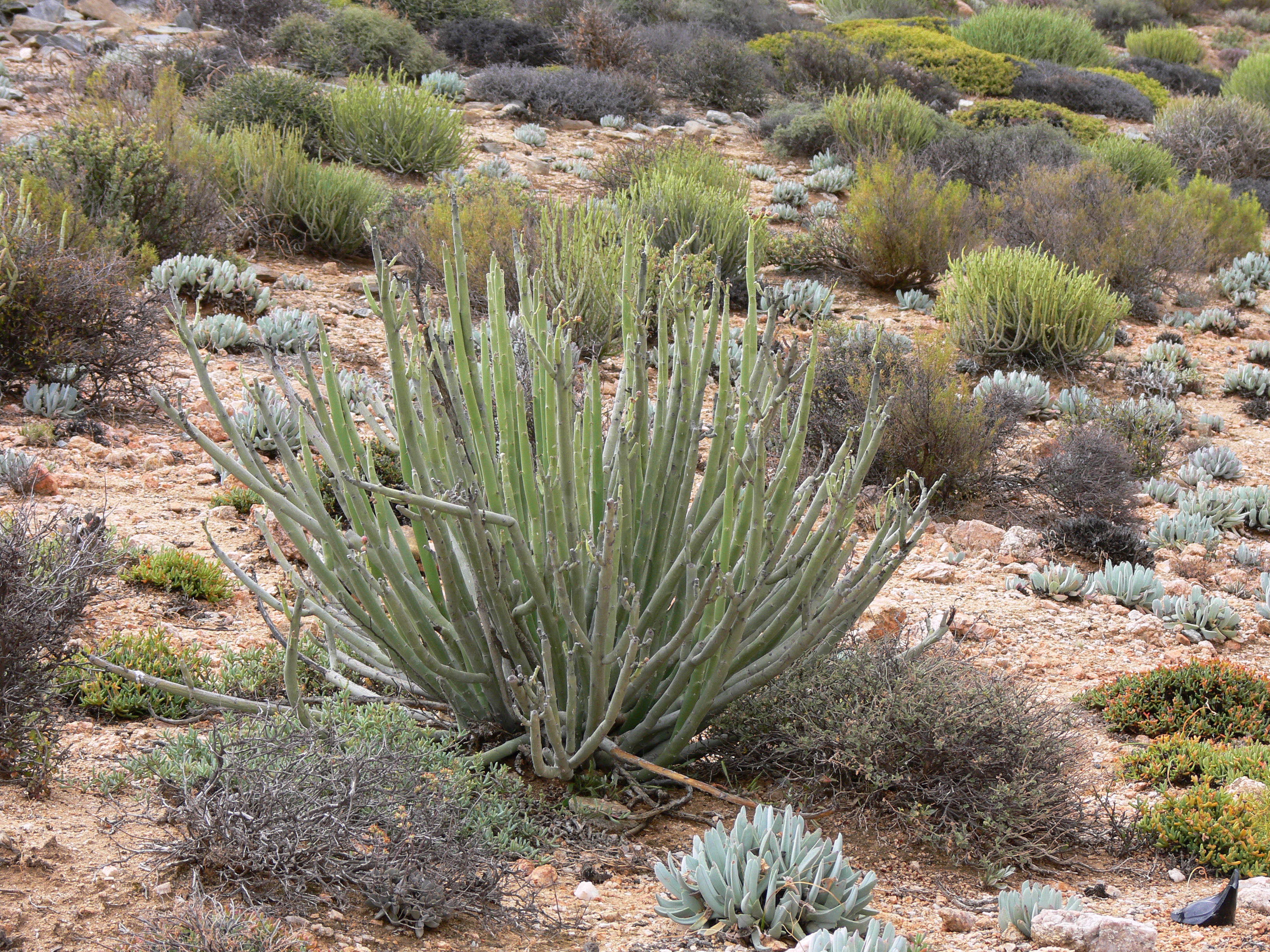 Euphorbia dregeana E. Meyer ex Boissier, Richtersveld National park, Northern Cape, South Africa